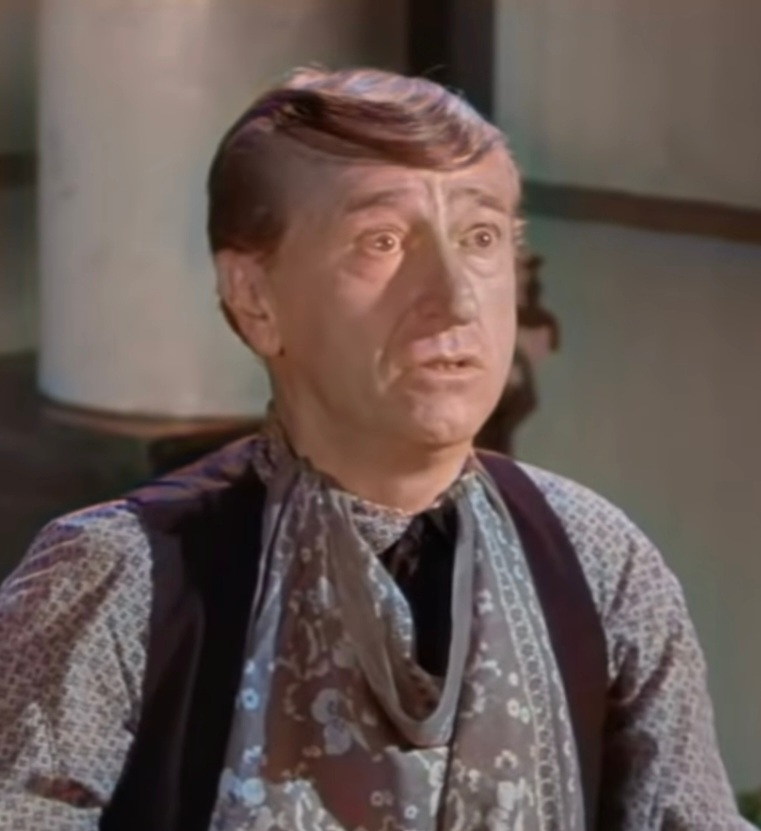 Olin Howland (aka Olin Howlin) in Angel and the Badman - cropped screenshot